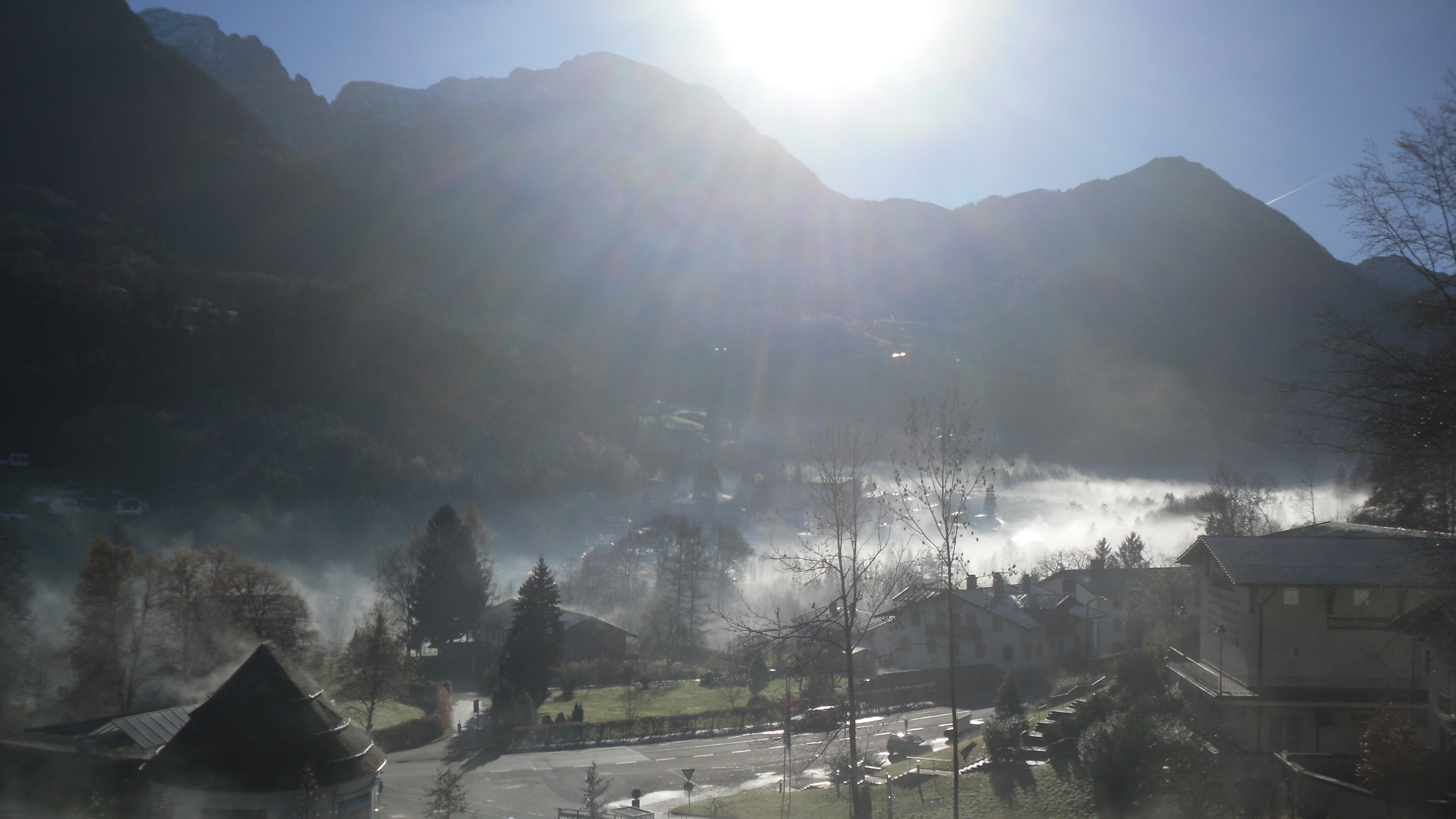 An early morning view of Berchtesgaden in late autumn.